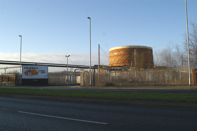 Gasometer beside the A49 The site of the first Warrington Provisional IRA bombing in February 1993. In March a second bombing took place in the town centre, killing younsters Johnathan Ball and Tim Parry.